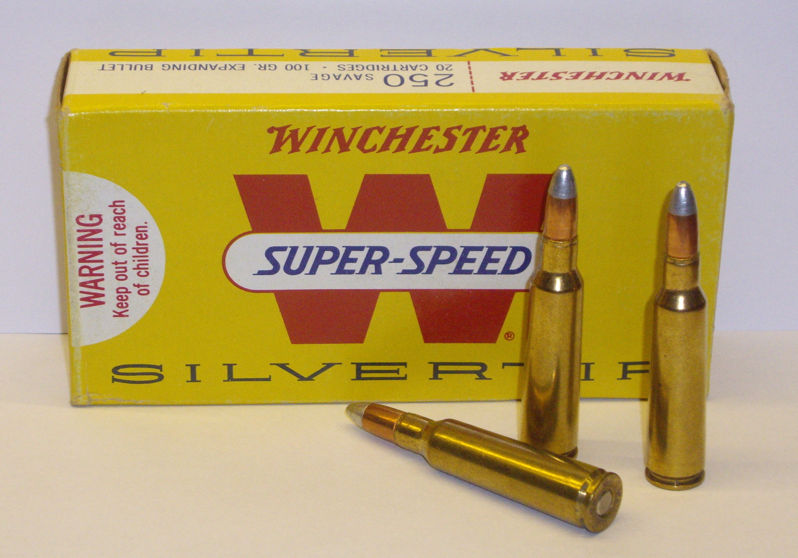 .250-300 Savage rifle cartridges